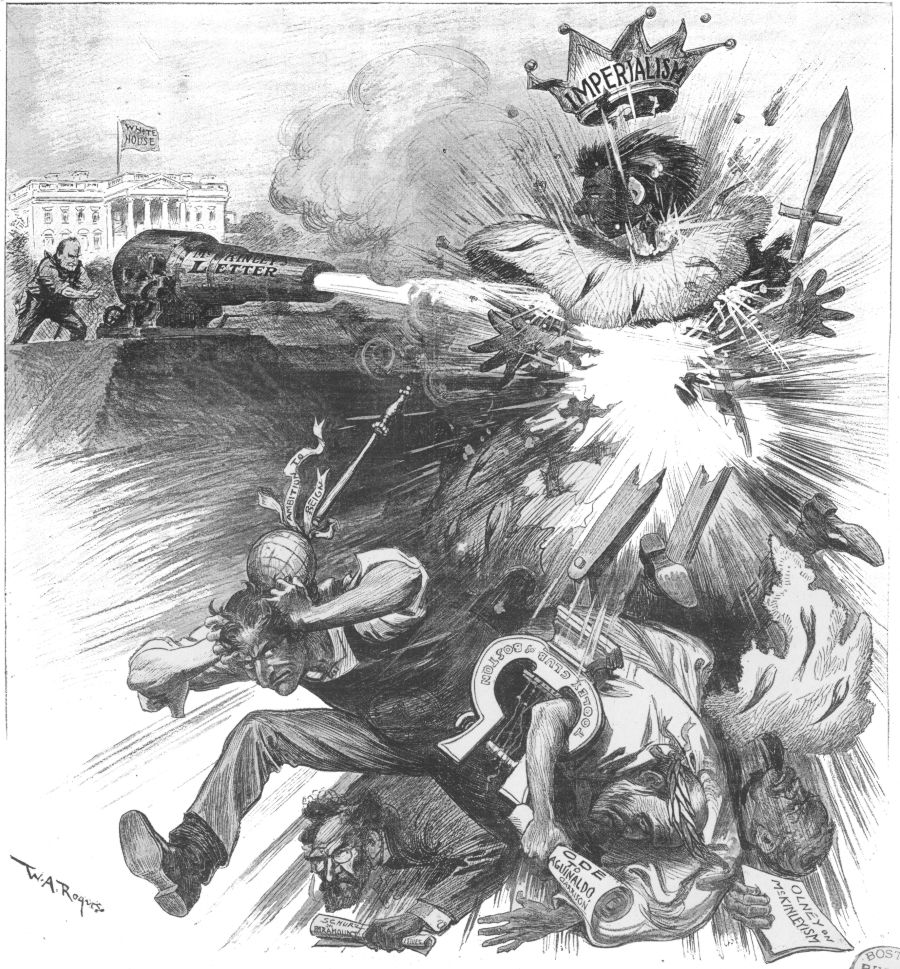 U.S. President William McKinley has shot a cannon (labeled McKinley's Letter) which has involved a "straw man" and its constructors (Schurz, Garrison, Olney) in a great explosion. Caption: S M A S H E D !